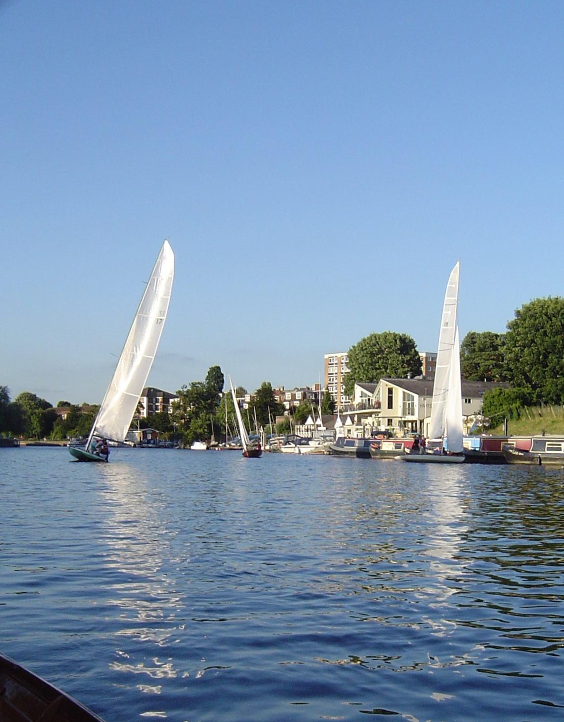 Thames Raters at Raven's Ait on the River Thames